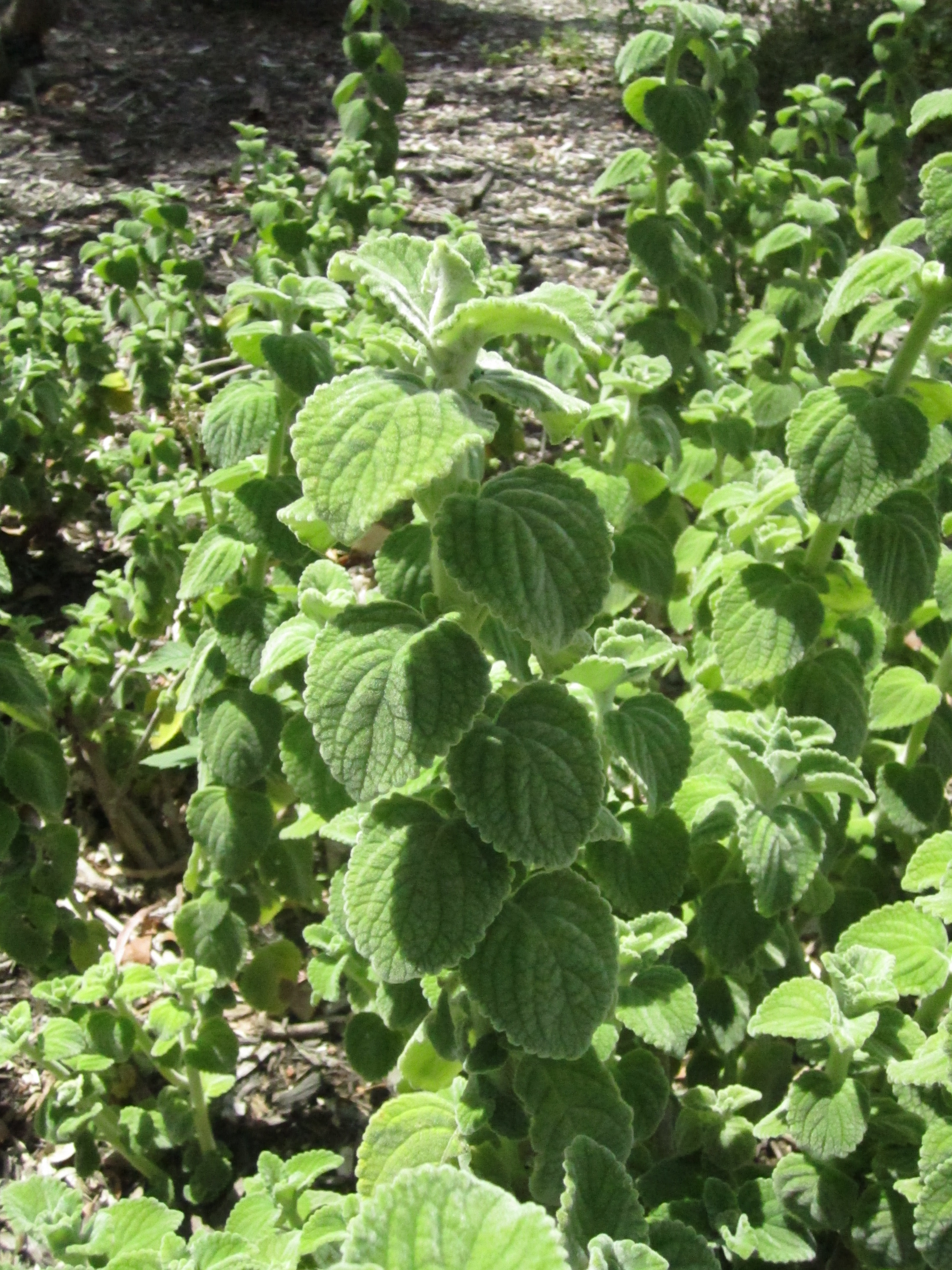 The making of this file was supported by Wikimedia Australia. To see other files made with WM-AU support, please see the category Supported by Wikimedia Australia. Plectranthus bellus in the Mount Coot-tha Botanical Gardens. Photo taken in October (mid spring) of 2012.